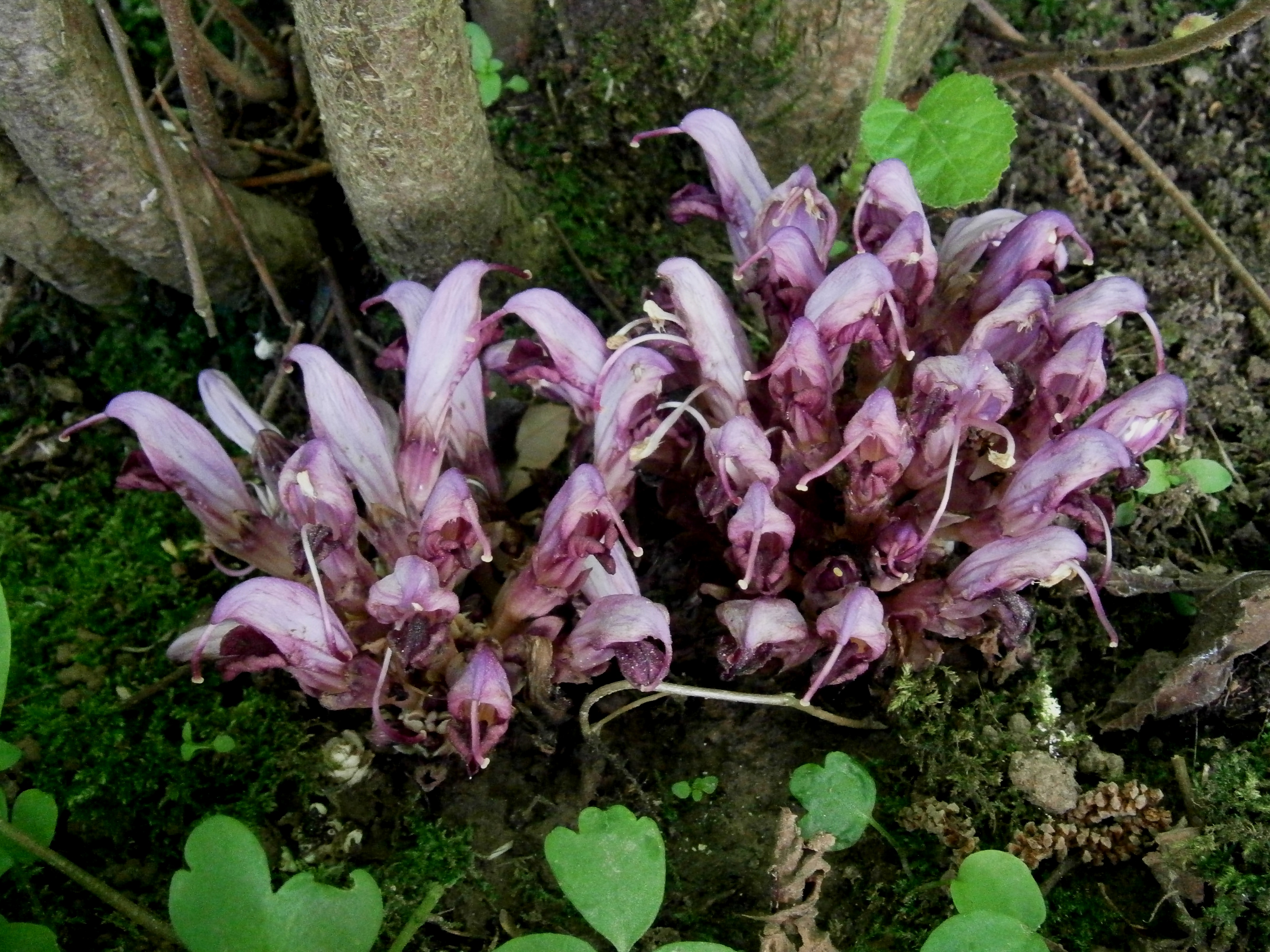 Lathraea clandestina